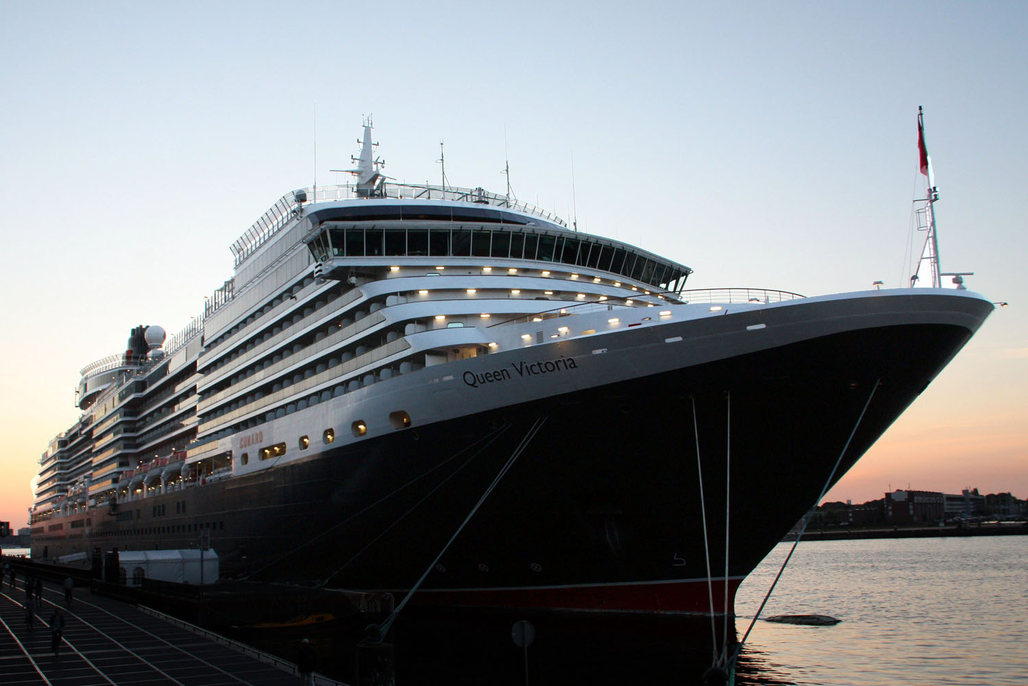 Cruiseschip Queen Victoria from Southampton (Engeland) in the port of Amsterdam in 2010.